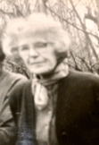 Alice Betha Moreton